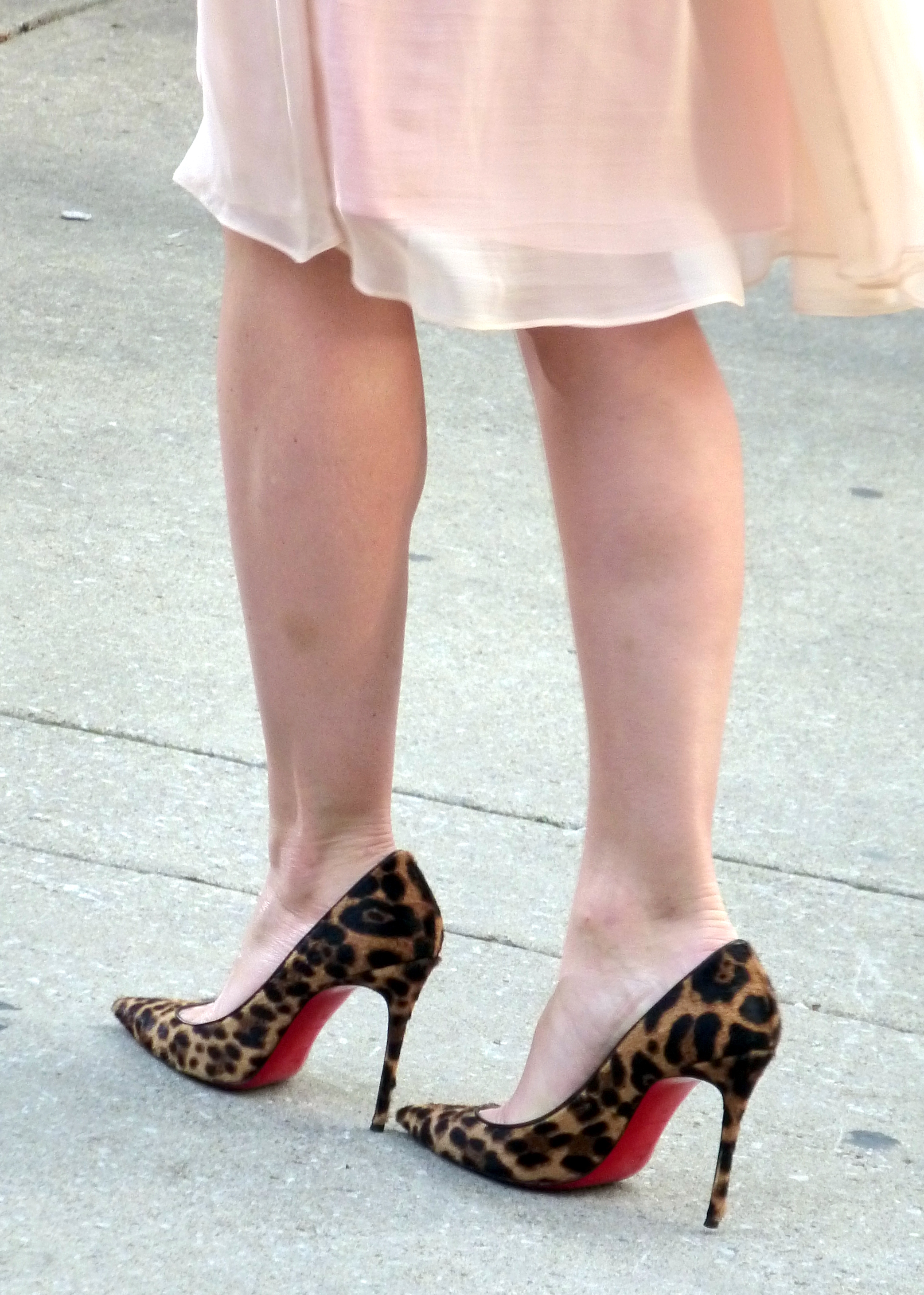 Jennifer Morrison at the premiere of August: Osage County, Toronto Film Festival 2013